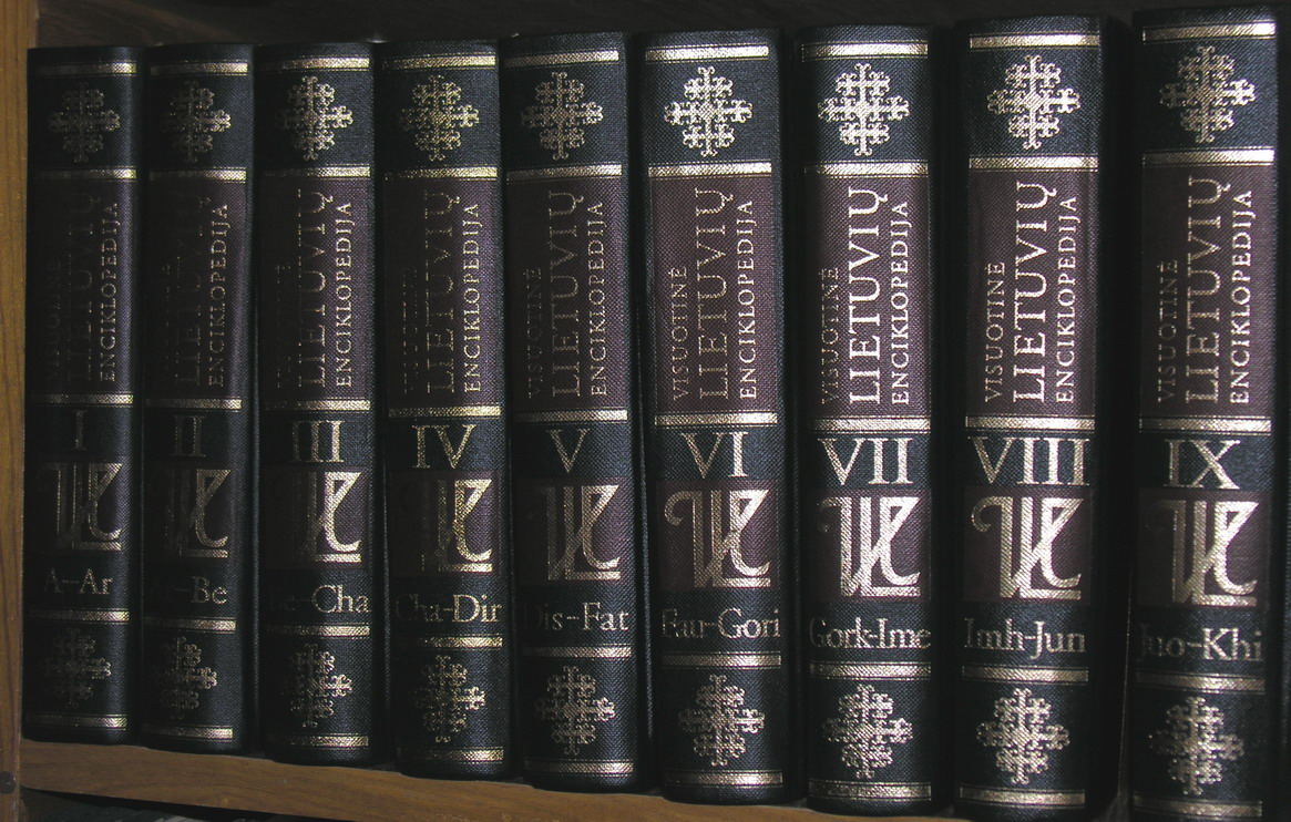 General Lithuanian Encyclopedia. 9 volumes